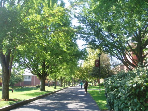 Kurtz Lane, Academic Row at Susquehanna University